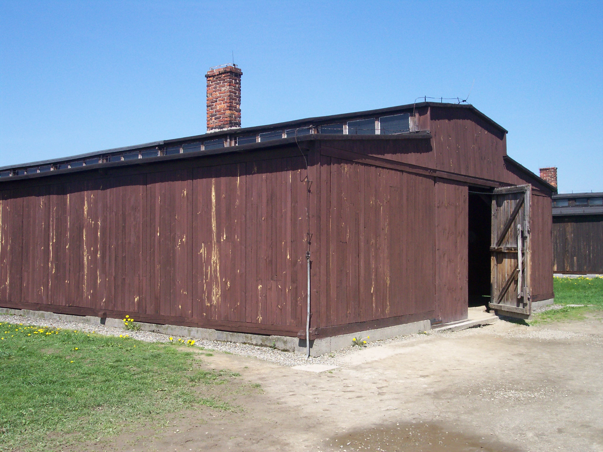 Barrack in the concentration camp Auschwitz II (Birkenau)